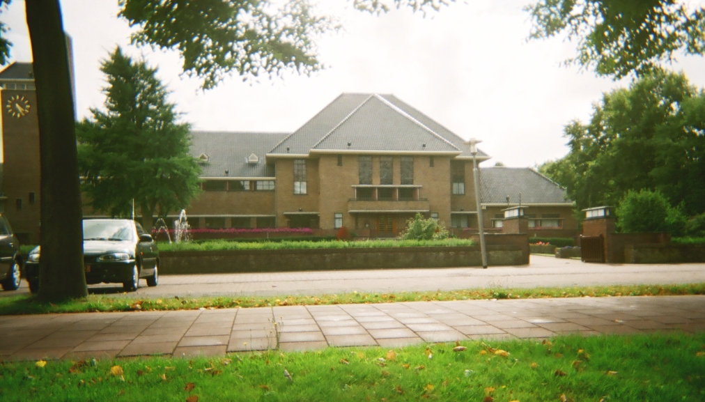 City hall of Katwijk, build in 1932.